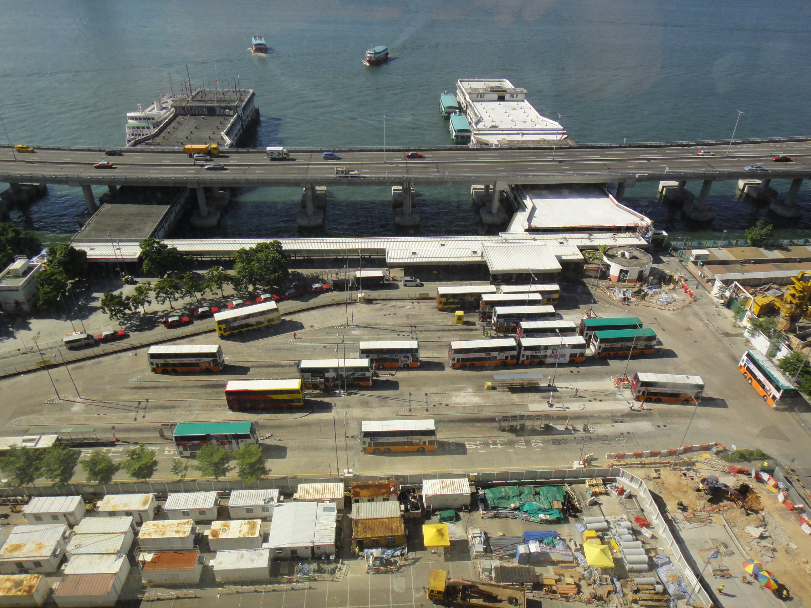 North Point Ferry Pier and Bus Terminus